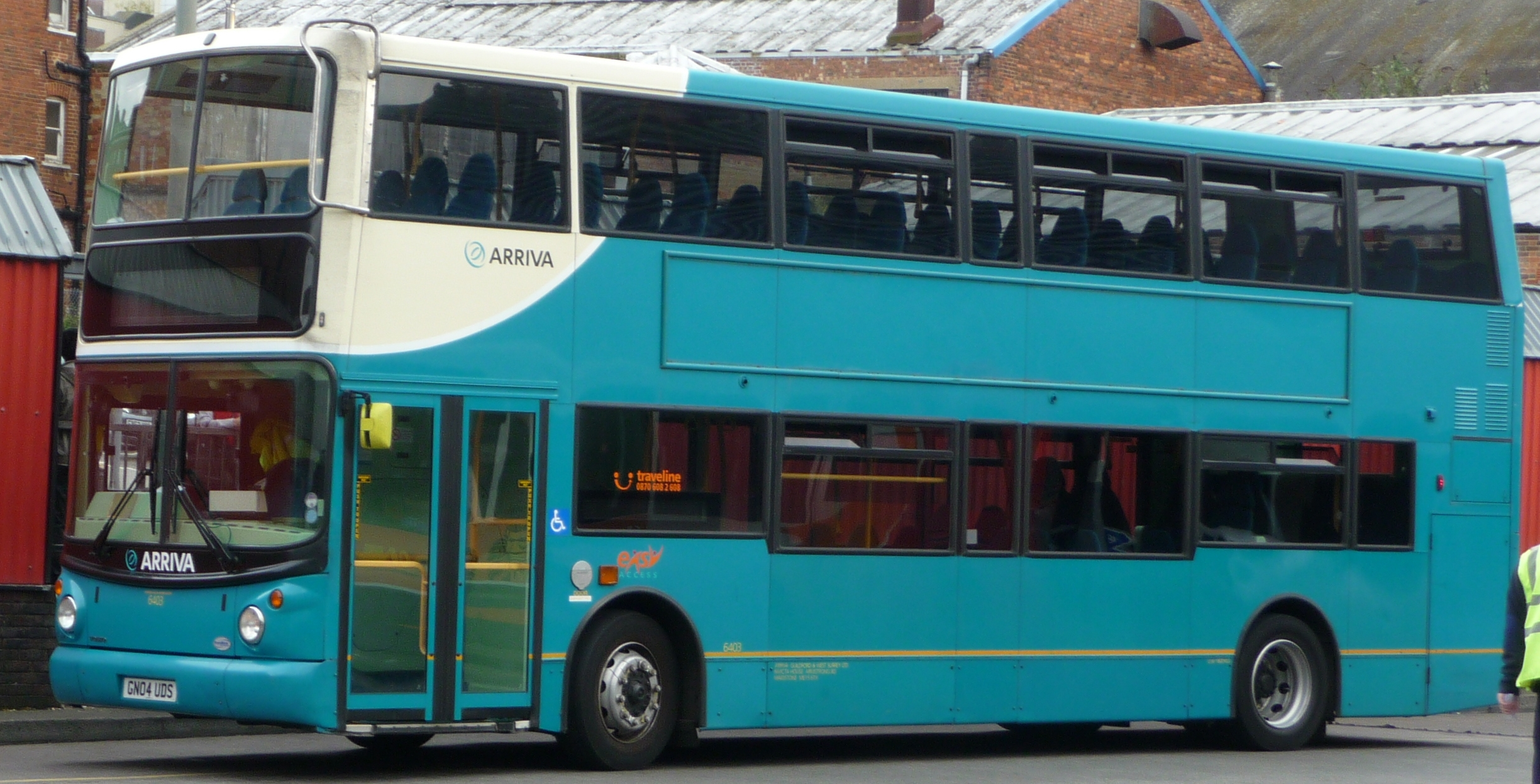 Arriva Guildford & West Surrey 6403 (GN04 UDS), a Volvo B7TL/TransBus ALX400, in Guildford Friary bus station, Guildford, Surrey, laying over out of service. Two B7TLs, 6402 and 6403, arrived at Guildford at the end of August 2009, to displace the step entrance Dennis Dominators (5214 and 5215). While 6402 was almost immediately sent for repaint, and had returned with a new paint of coat at the time of this photo, 6403 had yet to visit the paint shop. 6402 and 6403 were new to Gillingham depot - in the Arriva Medway Towns part of Arriva Southern Counties - in 2004, as part of "Operation Overdrive", where a large batch of buses were purchased to upgrade the fleet in one go.